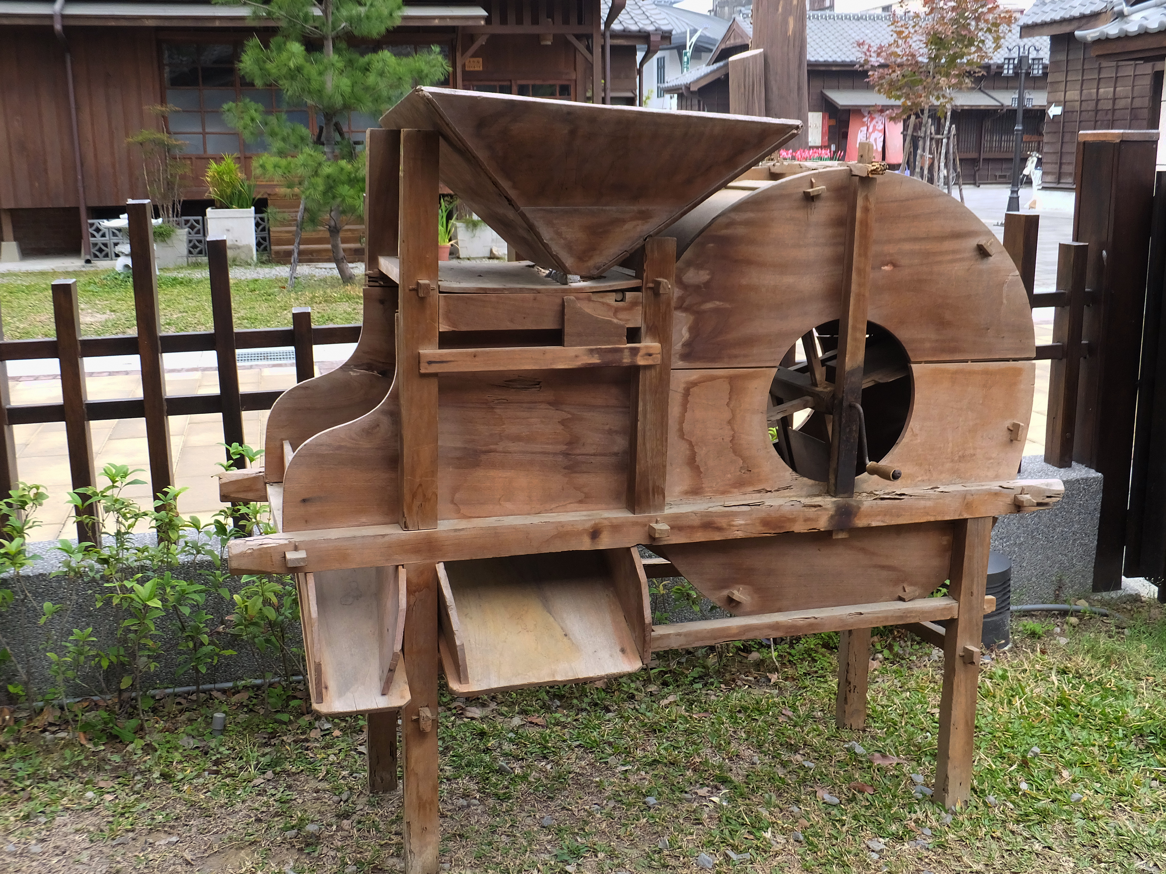 打穀機 Threshing machine